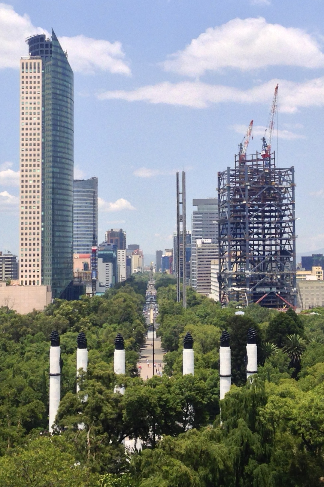 View of Paseo de la Reforma from the Castle of Chapultepec in Mexico City.